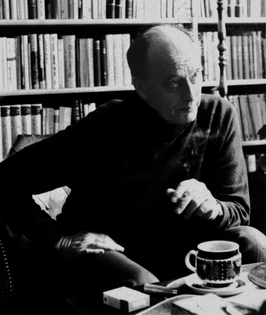 Norwegian author André Bjerke about 1980